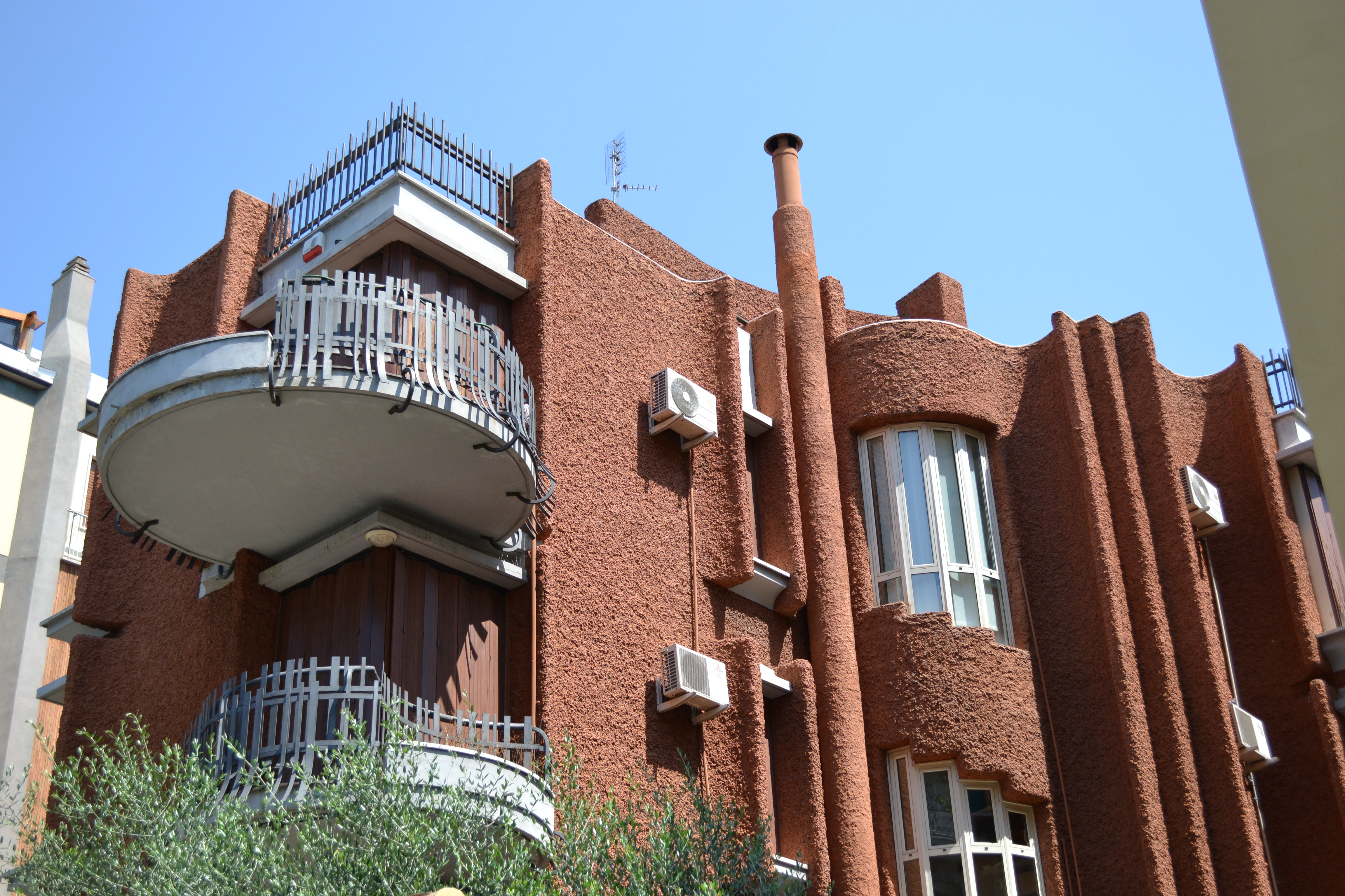 The American University of Rome Carini Building in 2012, originally designed by Eugenio Abruzzini (who worked with Paolo Portoghesi in the Sixties; Paolo Portoghesi being author of the actual Casa Papanice that is at 1b, via Giuseppe Marchi, Rome, and it is the Embassy of the Kingdom of Jordan).